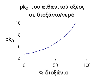 Plot of pKa as a function of dioxane% in dioxane/water mixtures